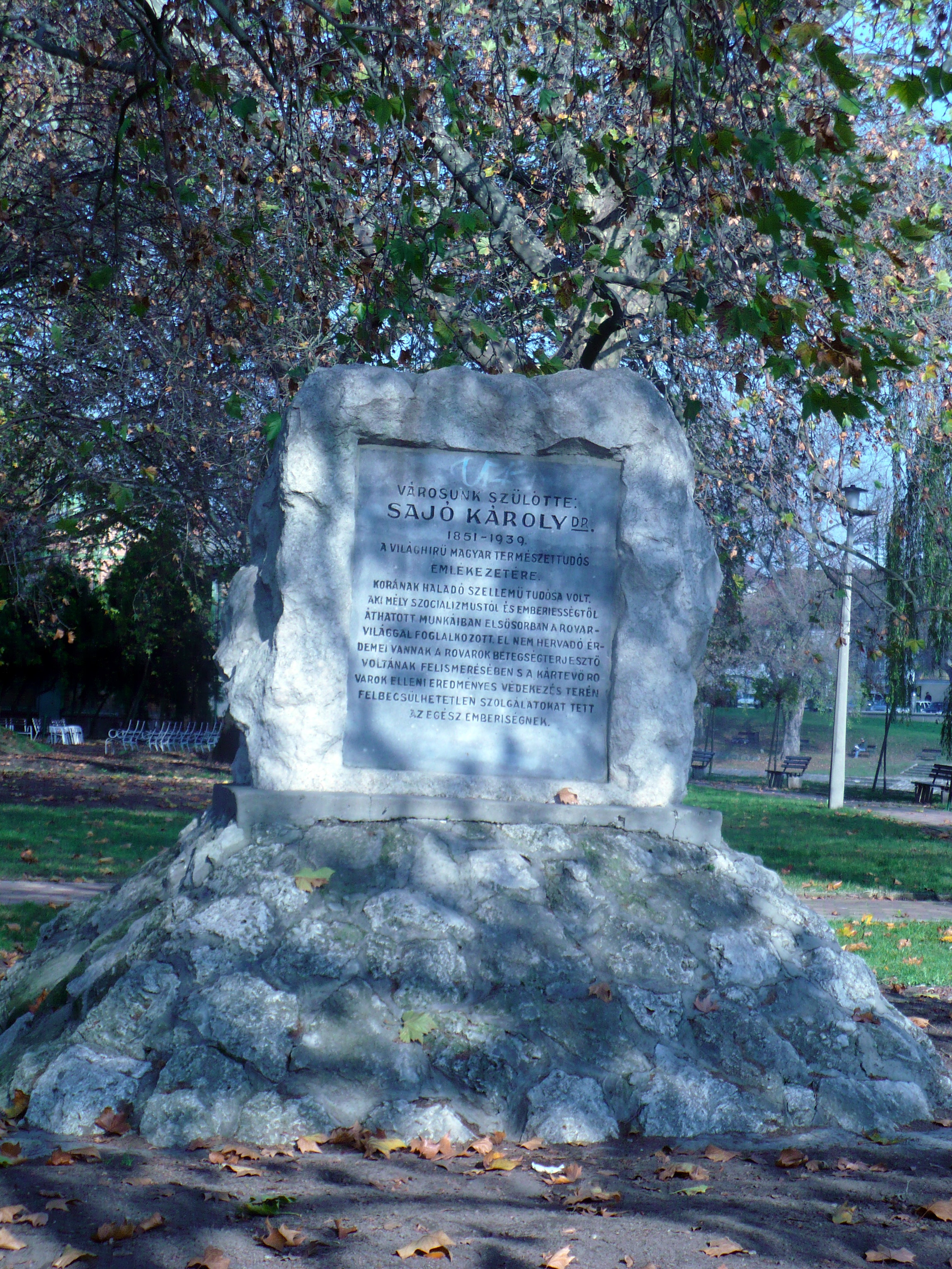 Monument of Sajó Károly, a Hungarian entomologist born in Győr.